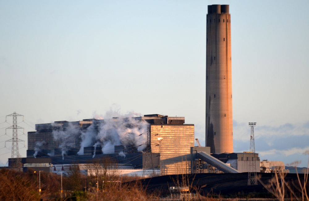 Longannet Power Station